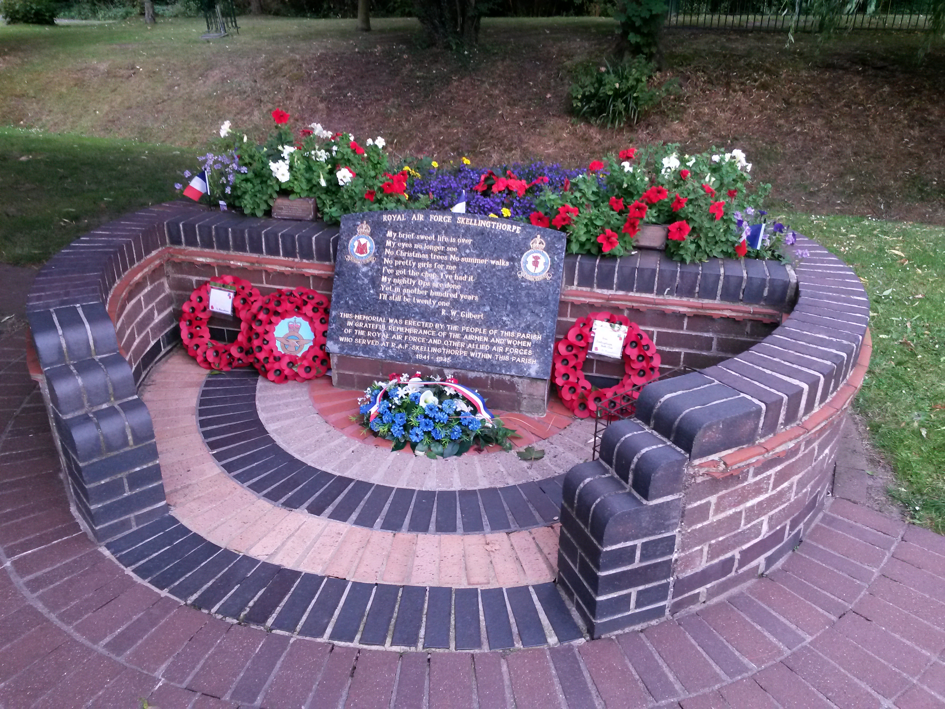 This is Skellingthorpe's memorial to 50 and 61 Squadrons, who served at the nearby RAF base. It is bedecked in French motifs following a visit by a French delegation.